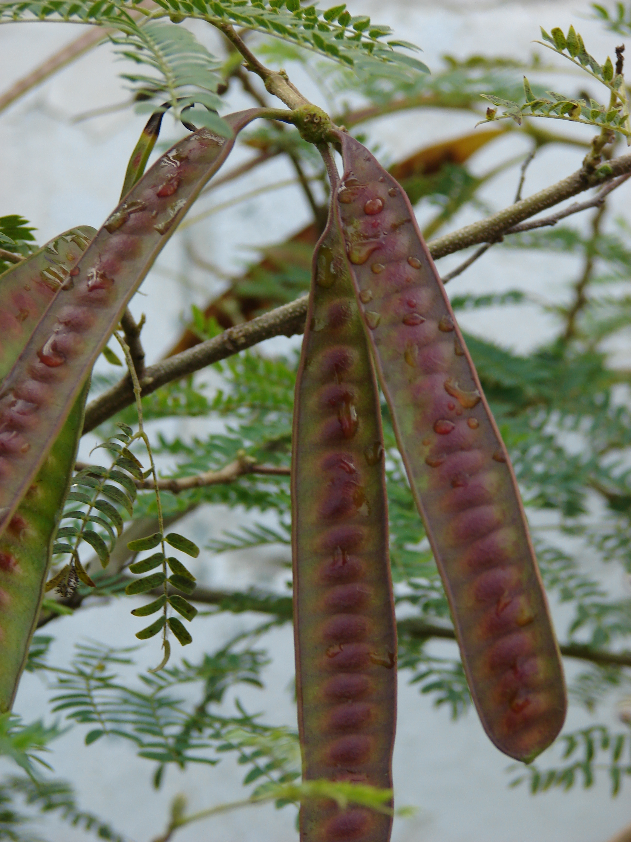 Leucaena leucocephala (seedpods). Location: Midway Atoll, Water plant Sand Island